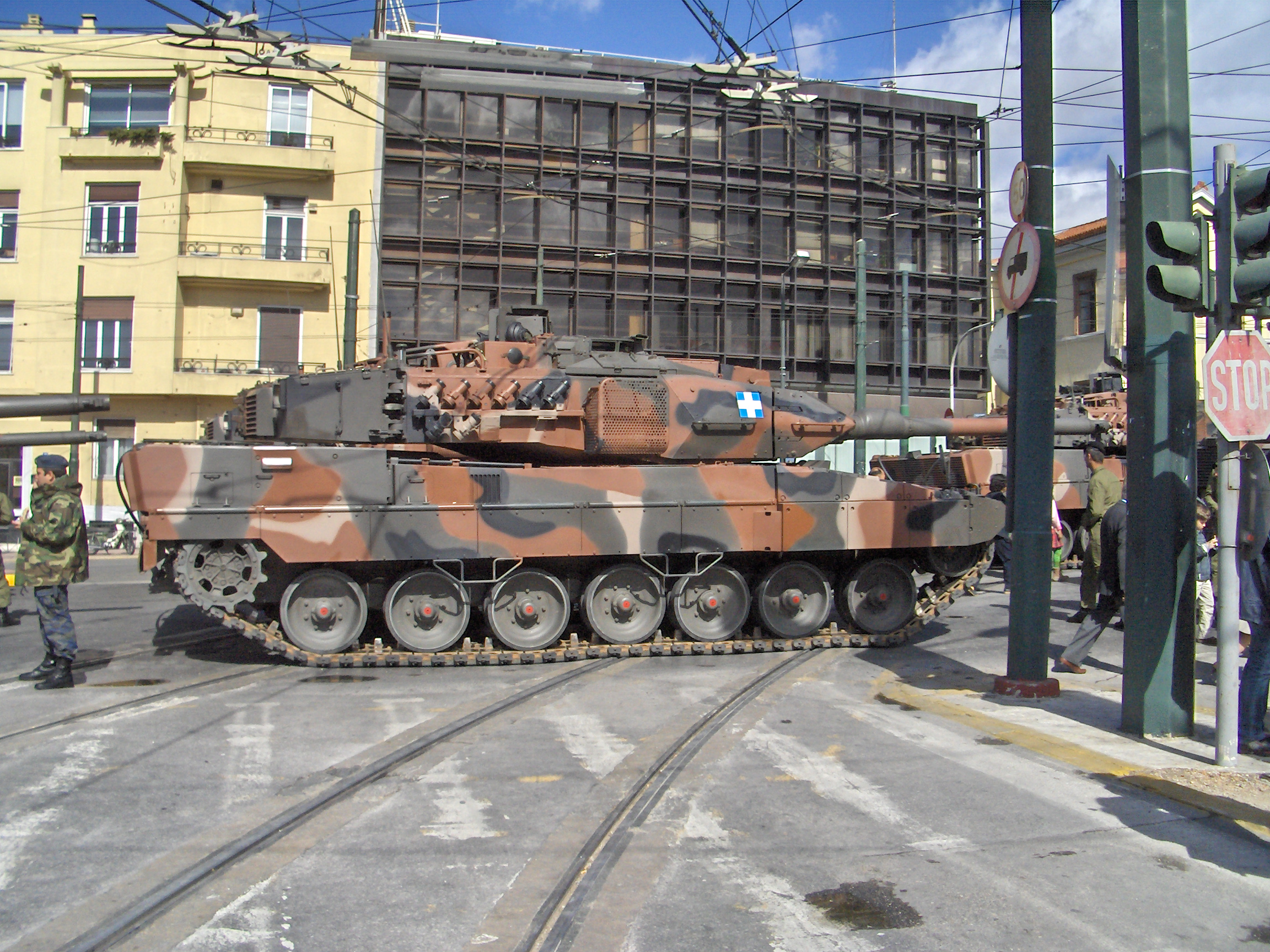 Hellenic Army tank at the National Day parade in Athens.